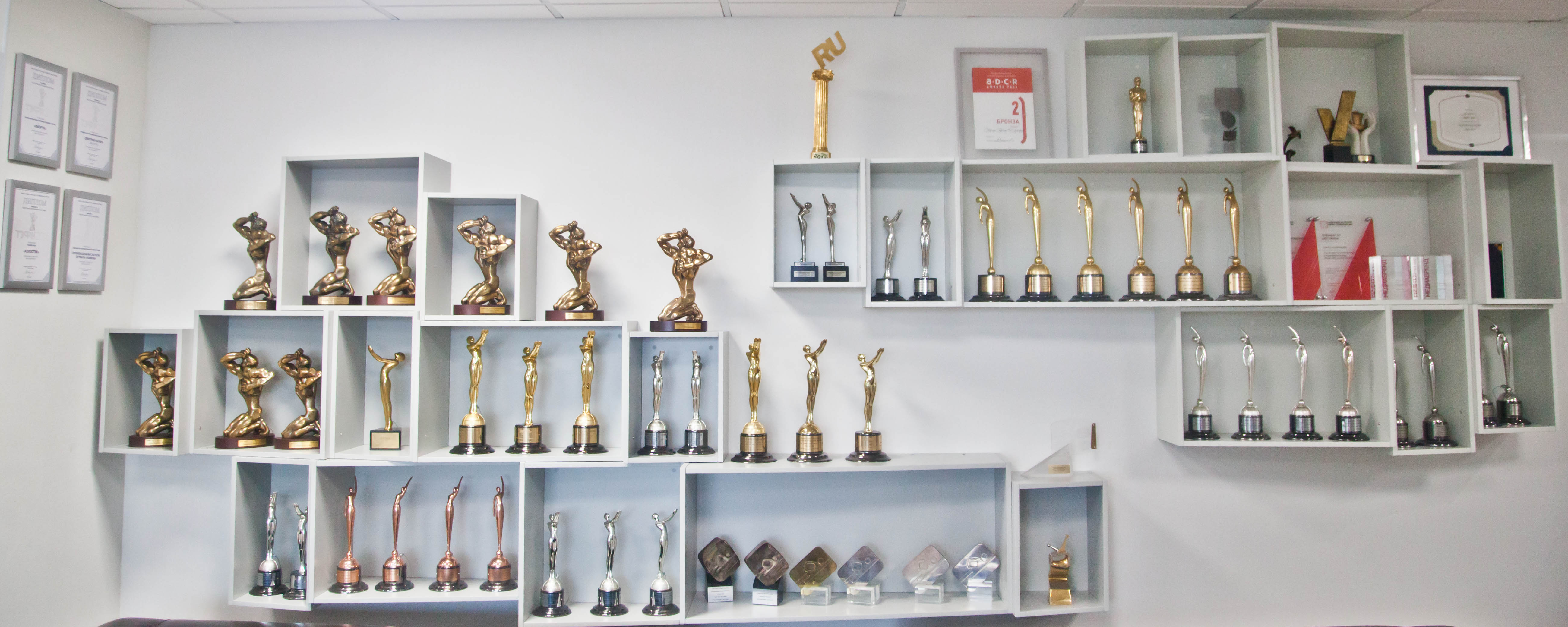 Награды канала TNT